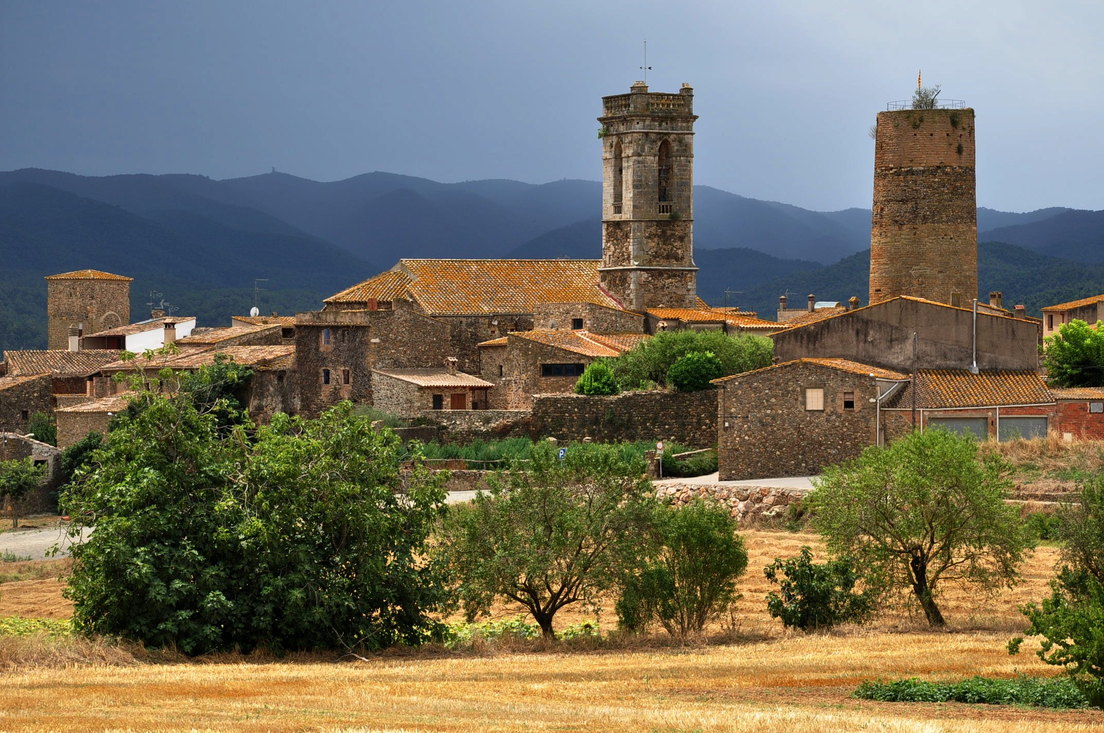 The village of Cruïlles (County of Baix Empordà, Catalonia, Spain) lies 2 km west of La Bisbal d'Empordà. The hills in the background are Les Gavarres.